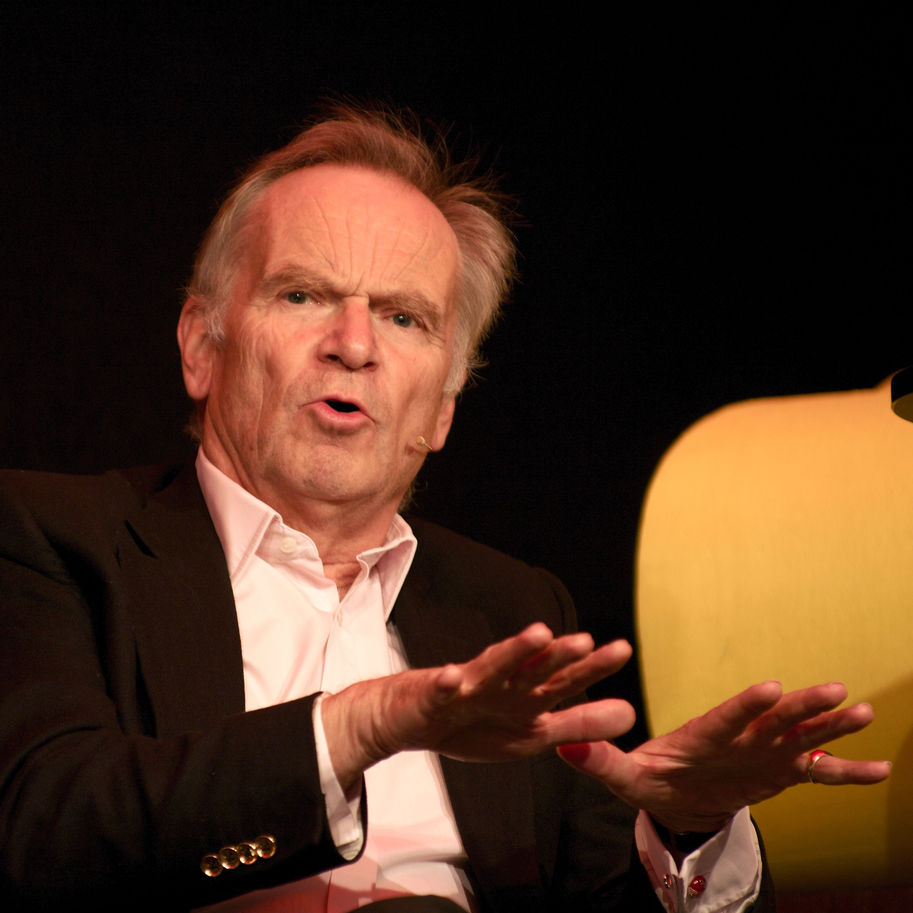 Jeffrey Archer at Oslo bokfestival.